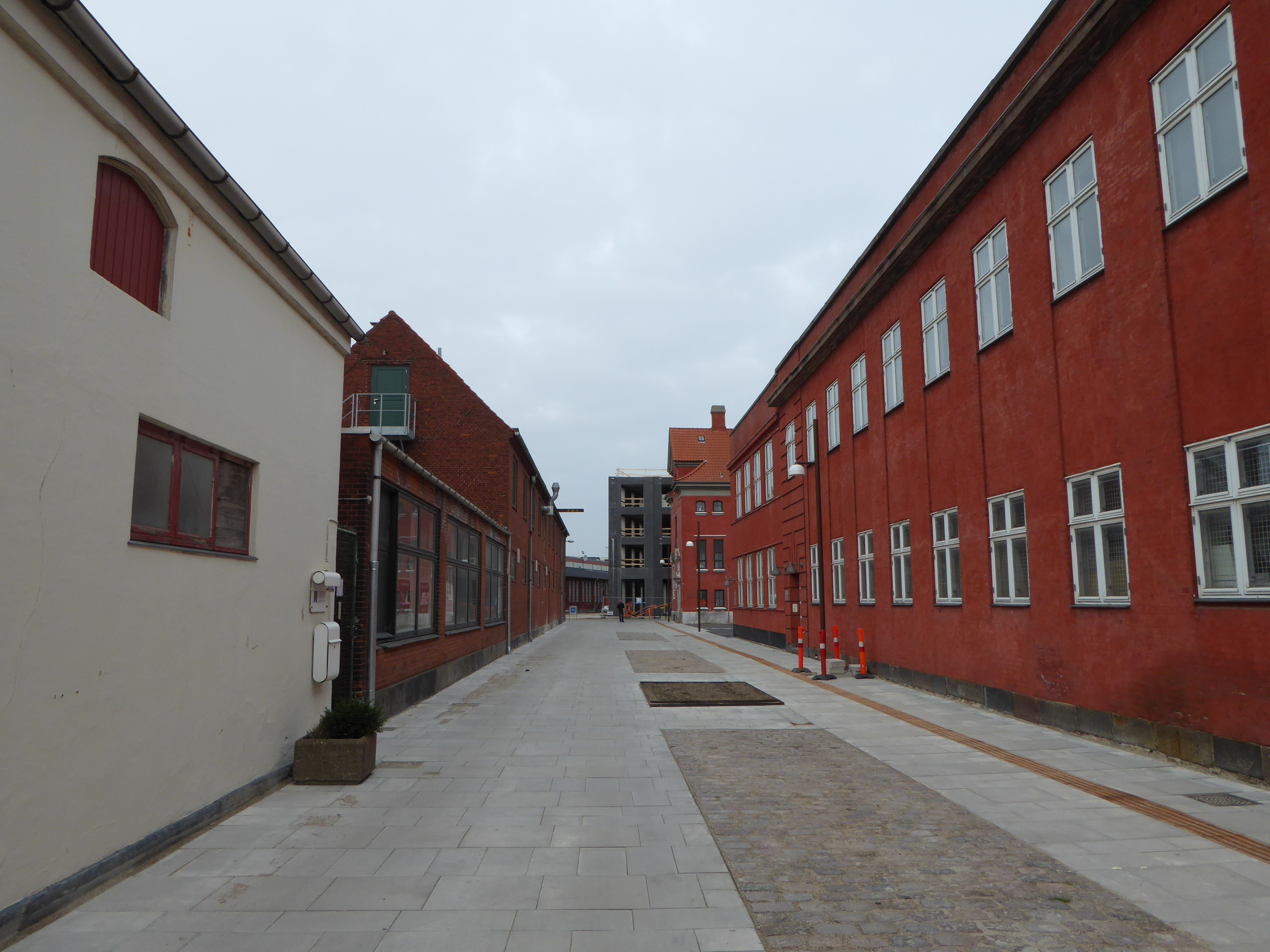 The street Billedvej in Nordhavn in Copenhagen.